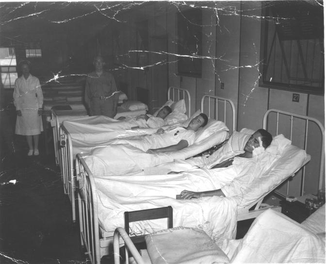 Soldiers in a hospital on Guadalcanal who were wounded in the Battle of Peleliu. Soldier in the lower right on the bed with a bandage on his head is Pfc. Marcel (Sal) M. Baldinger of the 1053rd Platoon, 3rd Battalion, 5th Marines, 1st Marine Division.